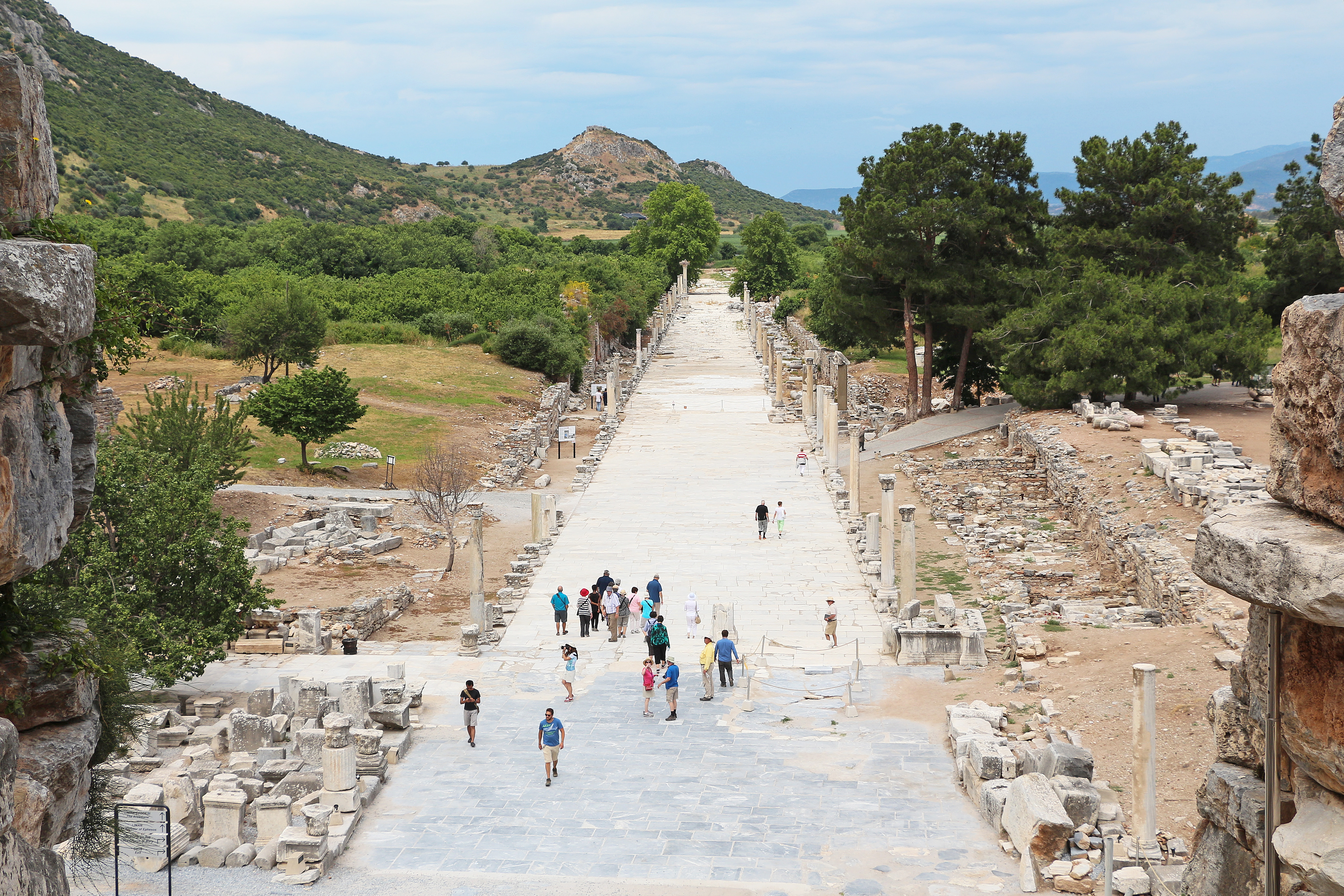 Arcadiane Street seen from the Ancient Greek theatre in Ephesus, Turkey